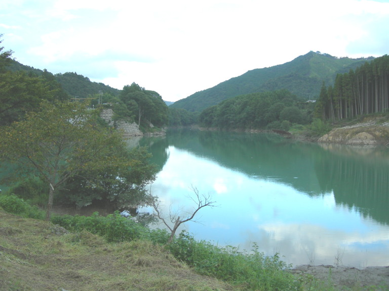 Misedani-dam at Odai town, Taki District, Mie prefecture, Japan.